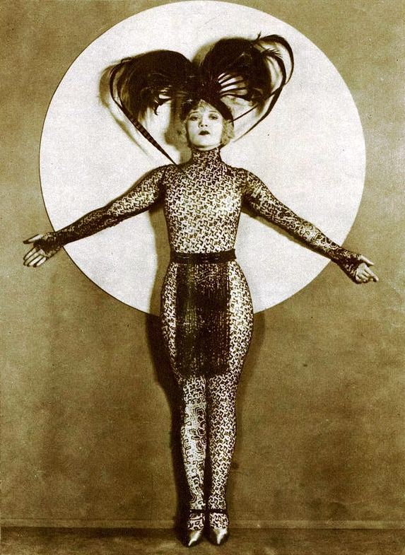 Still for the American film The Green Temptation (1922) with Betty Compson, on page 32 (back cover) of the March 30, 1922 Silverscreen.